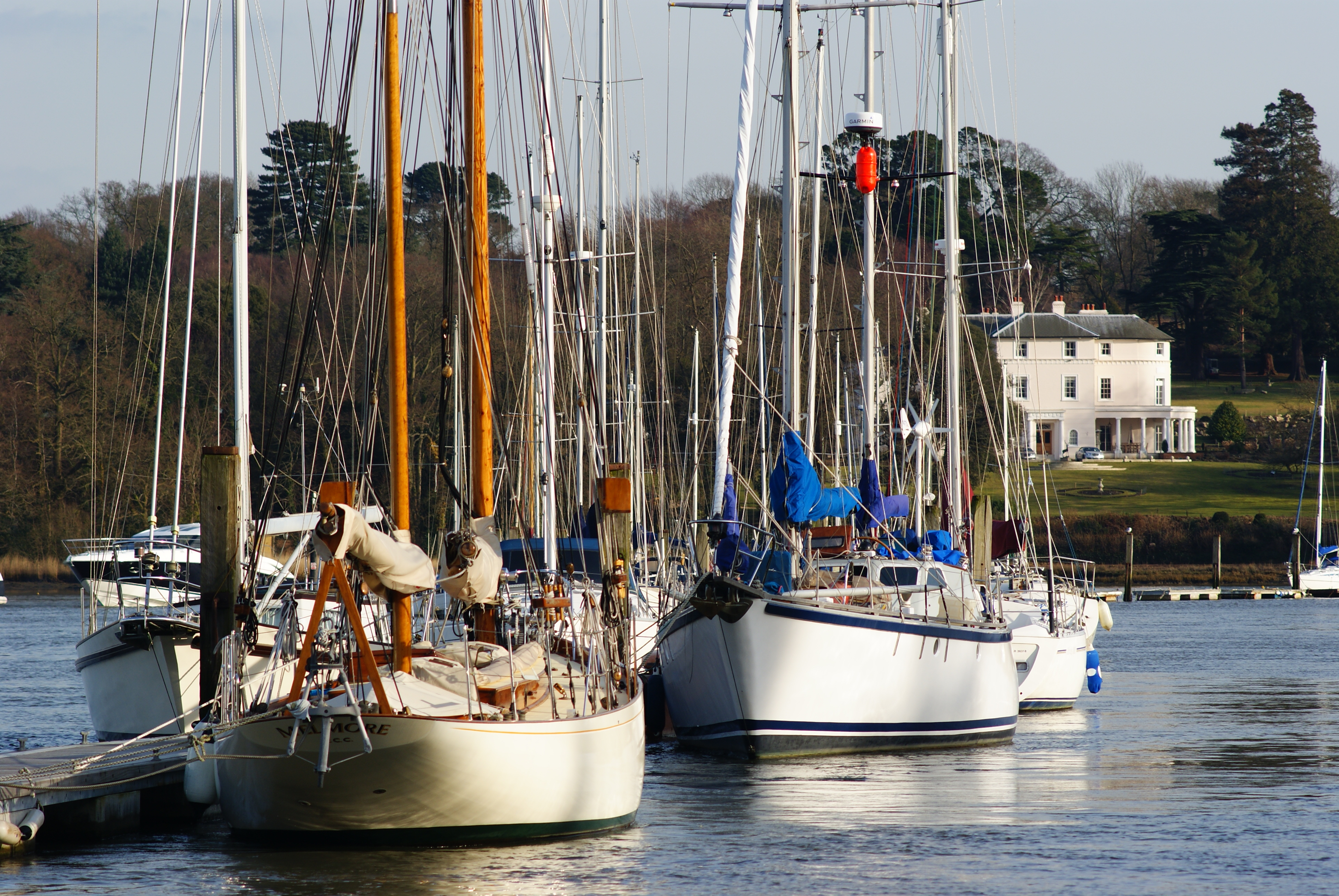 Yachts on the Hamble, Bursledon Yachts moored up, on the River Hamble. Photographed from the jetty beside the "Jolly Sailor". "Brooklands", seen in the distance, stands on the eastern bank of the river.